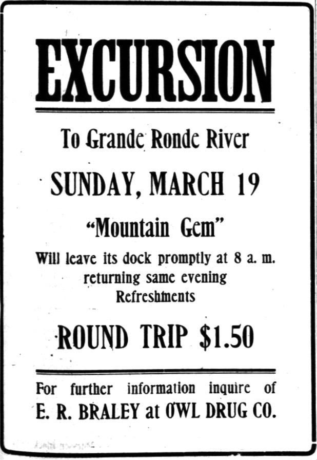 Advertisement run in the Lewiston Teller on March 10, 1905, on page 5, for an excursion on the Snake River to be run on March 19, 1905, on the river steamer Mountain Gem.